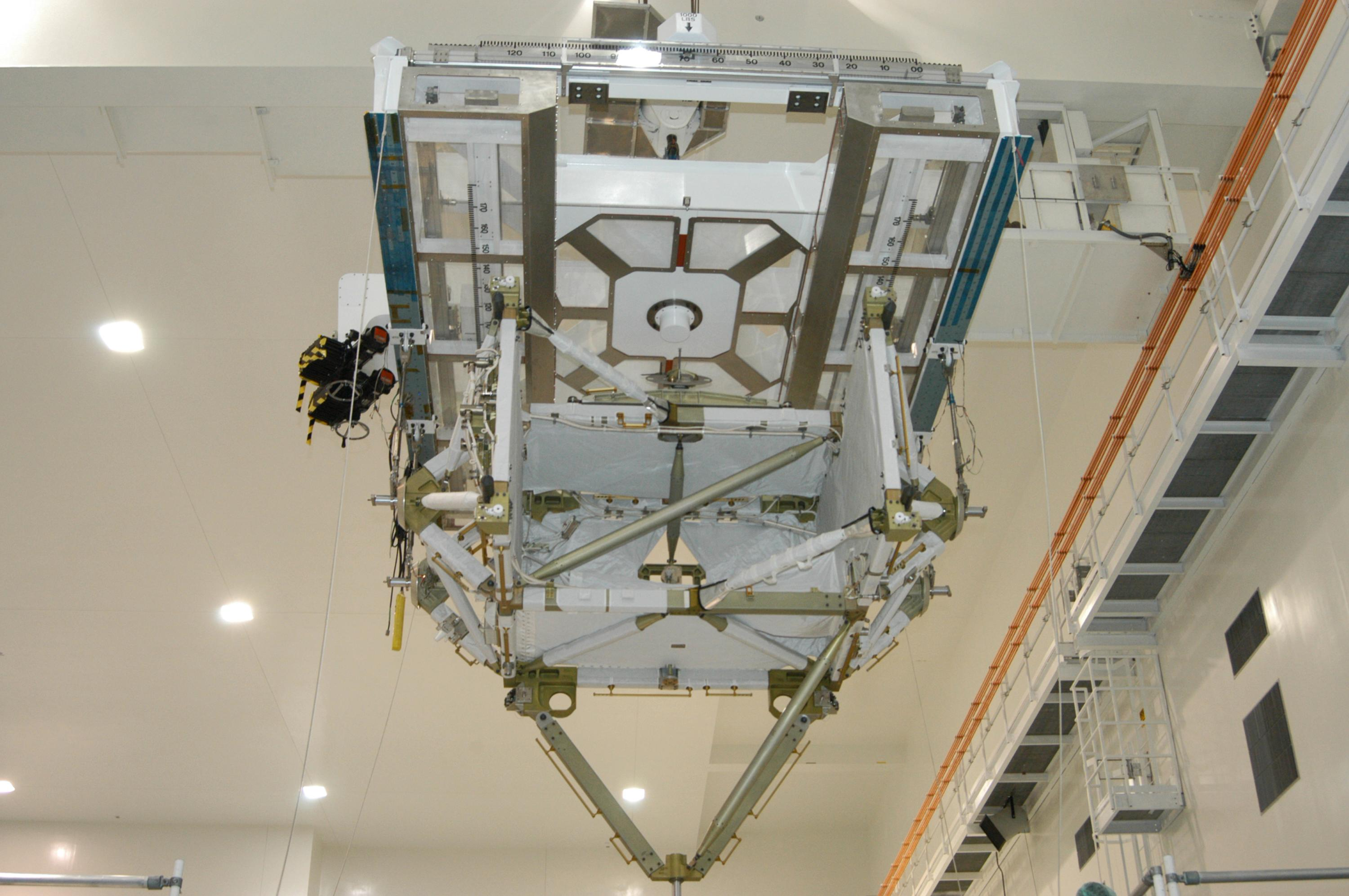 KENNEDY SPACE CENTER, FLA. -- In the Space Station Processing Facility, an overhead crane moves the P5 truss for mission STS-116 to the payload canister. The truss will be transported to Launch Pad 39B where it will wait for installation in Space Shuttle Discovery’s payload bay. The third port truss segment, the P5 will be attached to the P3/P4 truss on the International Space Station during the 11-day mission. The window for launch of mission STS-116 opens Dec. 7.